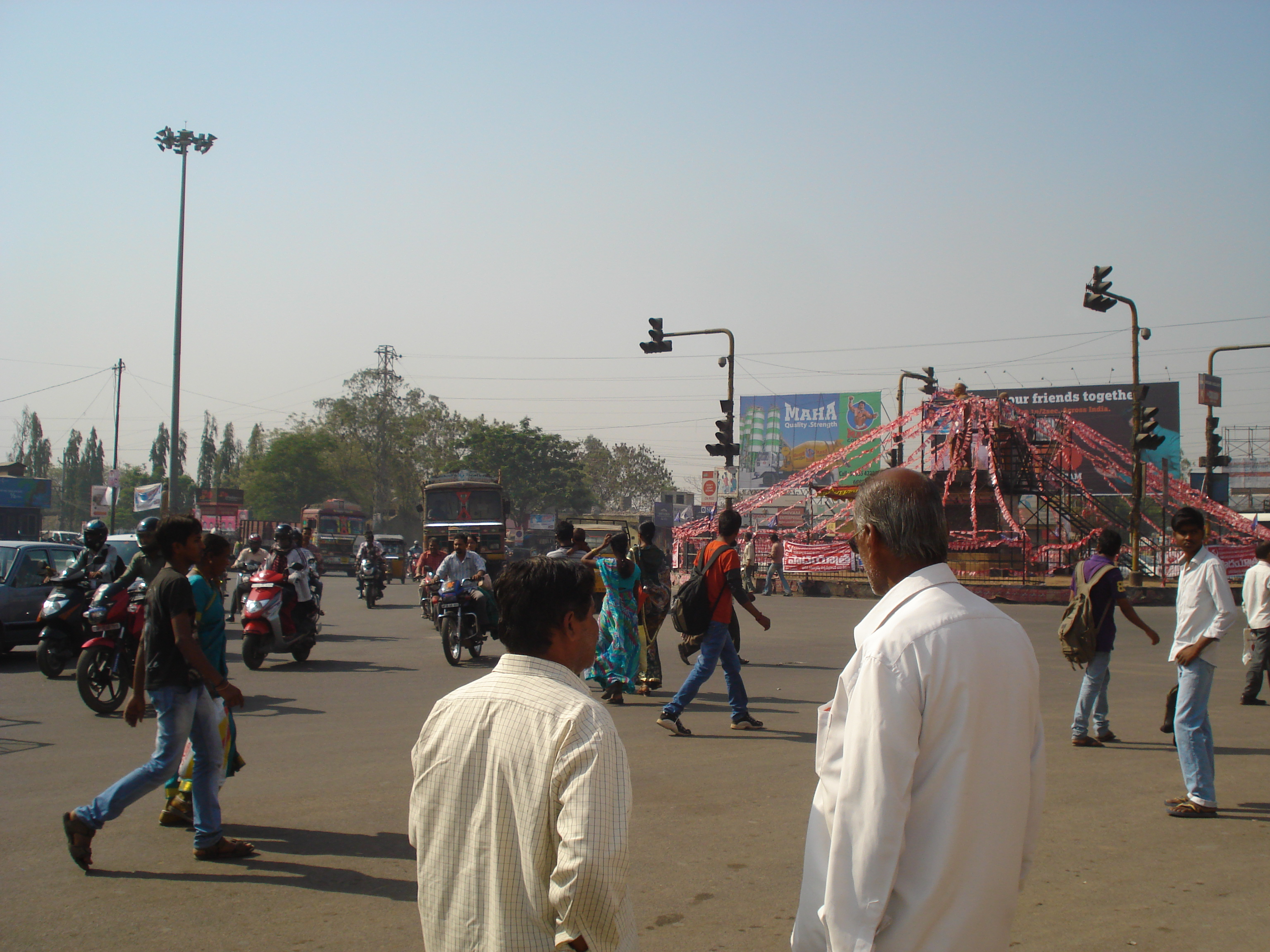 A view of the LB Nagar Chowrashta